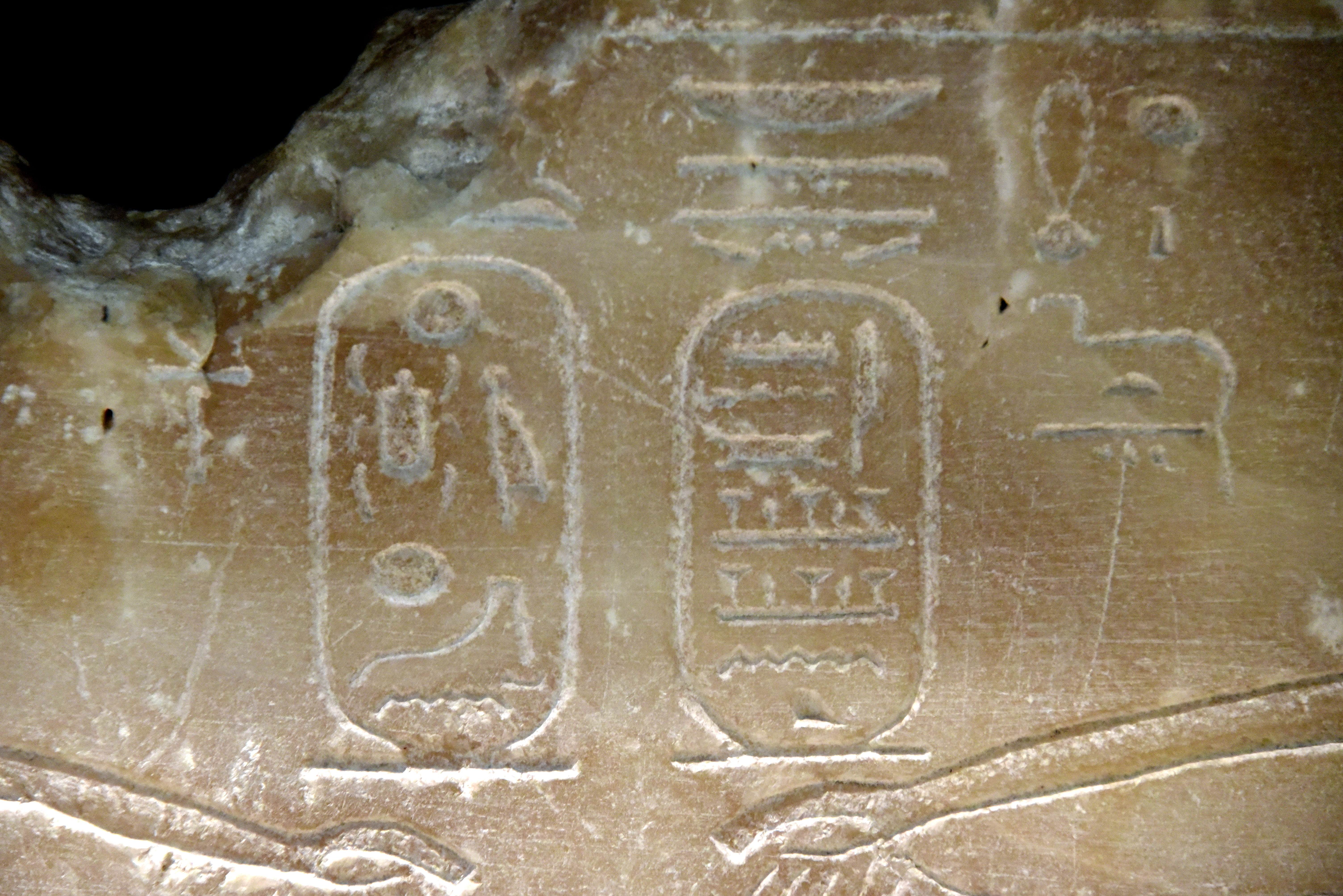 Birth and throne names (nomen and prenomen cartouches) of Shoshenq I. Detail. Canopic chest and lid of the Egyptian king Shoshenq I. Third intermediate period, 22nd (Bubastite Dynasty) Dynasty, 10th century BCE. Precise provenance unknown. Calcite-alabaster. The Neues Museum, Germany.